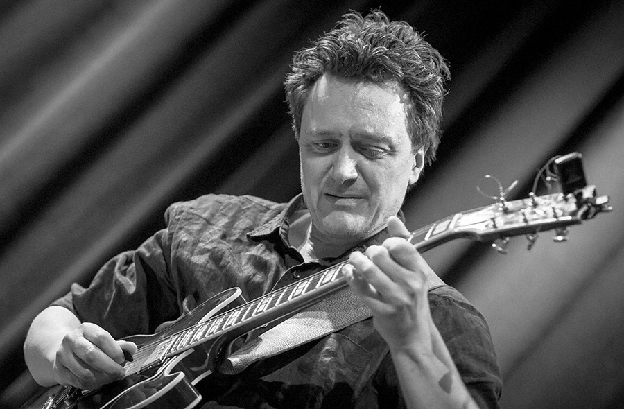 Jacob Young performs with Mike Mainieri and Bendik Hofseth at Cosmopolite Scene in on 04 May 2016. Lineup:Mike Mainieri (vibraphone)Bendik Hofseth (tenor saxophone)Jørn Øien (piano)Bruno Raberg (double bass)Sidiki Camara (percussion)Carl Størmer (drums)Jacob Young (guitar)Helge Iberg (piano)Paolo Vinaccia (percussion)